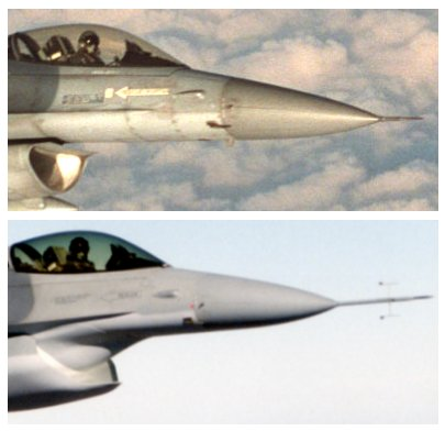 Testing of the F-35 Diverterless Supersonic Inlets on a f-16 Block 30 Test bed. The original intakes and the new test DSI intake is seen